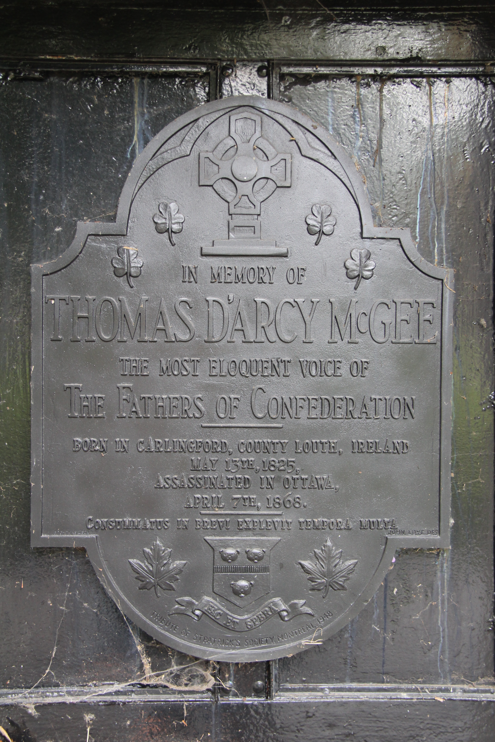 Thomas D’Arcy McGee’s tomb (plate on the door), Notre-Dame-des-Neiges Cemetery (K21), Montreal.